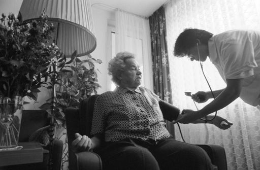 elder care